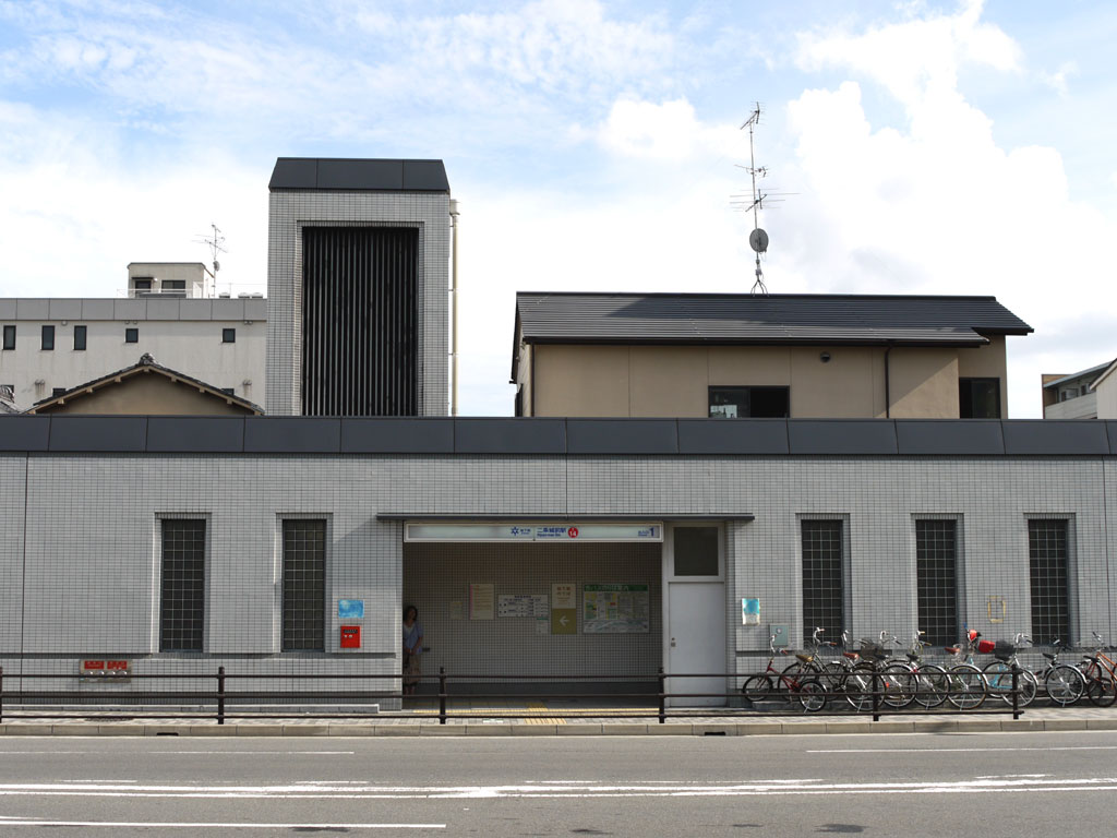 Kyoto Subway Tōzai Line Nijojo-mae Station Entrance No1